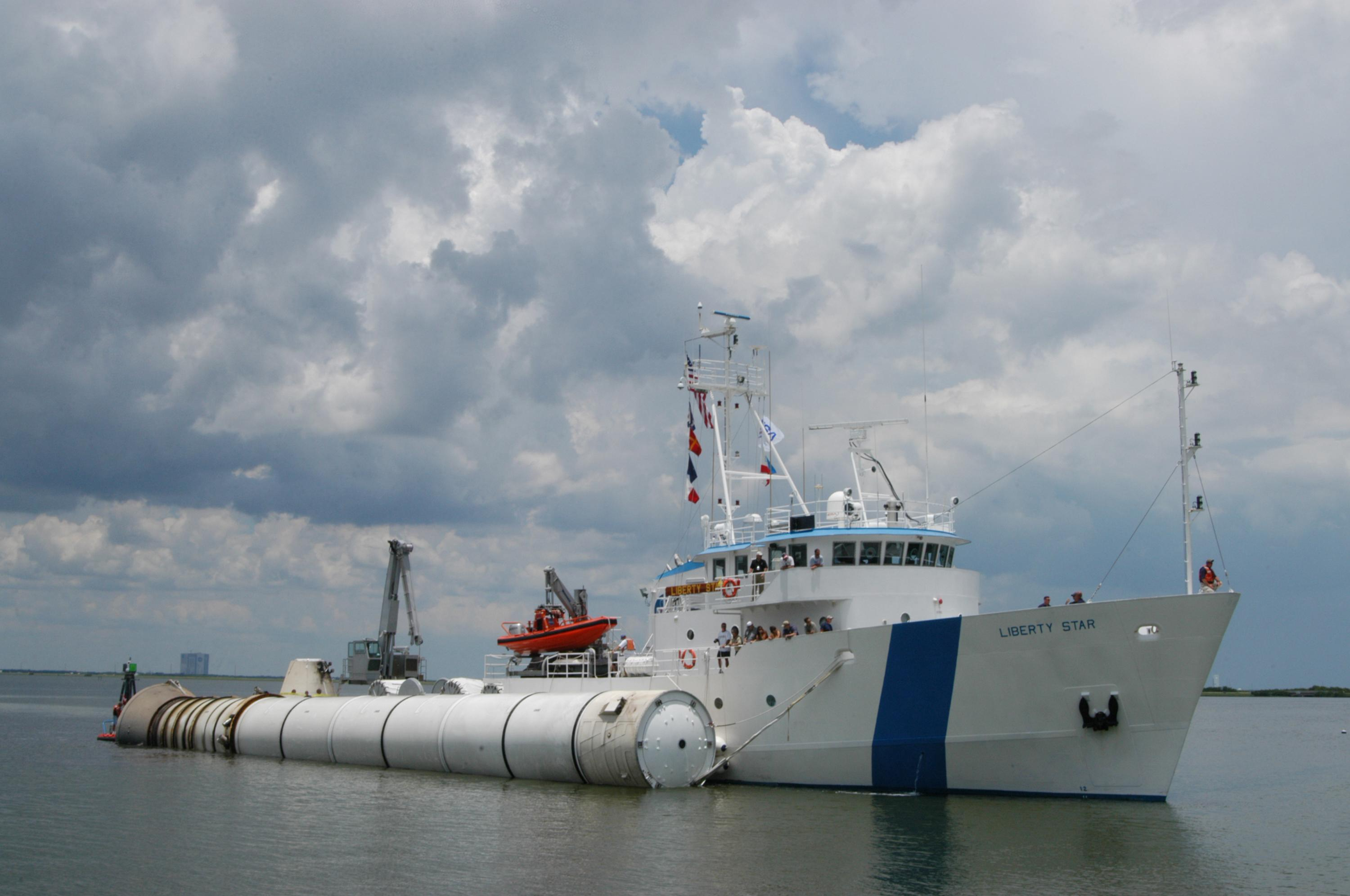 The SRB Retrieval Ship Liberty Star closes in on the dock at Hangar AF, Cape Canaveral Air Force Station, with a spent solid rocket booster alongside. The booster is from Space Shuttle Discovery, which launched on July 4. The space shuttle’s solid rocket booster casings and associated flight hardware are recovered at sea. The boosters impact the Atlantic Ocean approximately seven minutes after liftoff. The splashdown area is a square of about 6 by 9 nautical miles located about 140 nautical miles downrange from the launch pad. The retrieval ships are stationed approximately 8 to 10 nautical miles from the impact area at the time of splashdown. As soon as the boosters enter the water, the ships accelerate to a speed of 15 knots and quickly close on the boosters. The pilot chutes and main parachutes are the first items to be brought on board. With the chutes and frustum recovered, attention turns to the boosters. The ship’s tow line is connected and the booster is returned to the Port and ,after transfer to a position alongside the ship, to Hangar AF at Cape Canaveral Air Force Station. There, the expended boosters are disassembled, refurbished and reloaded with solid propellant for reuse.